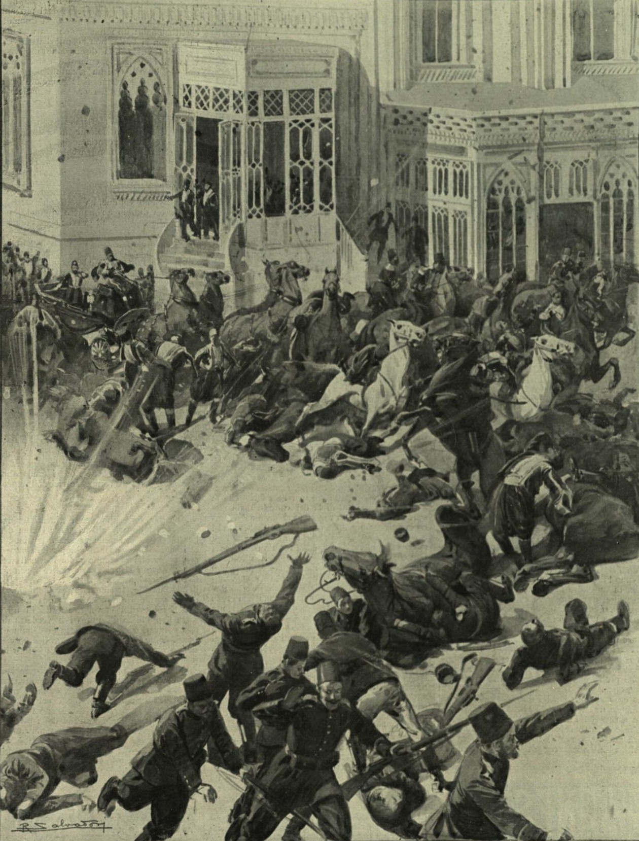 Picture dramatizing the Yildiz attempt.